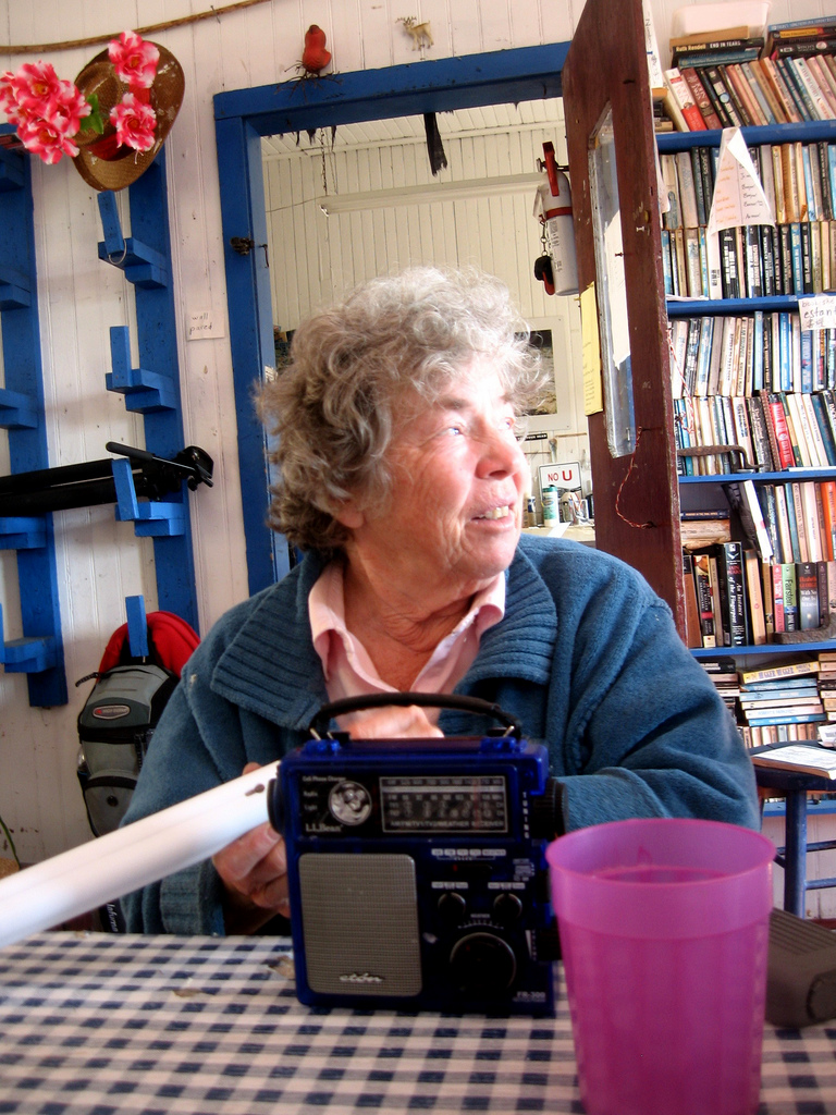 Helen Hays, of New York's American Museum of Natural History, has been the head of the GGI project since 1969---which is to say, longer than I have been alive. She comes to the island each year in about April and stays with only few and brief excursions back to the mainland until about September, the entirety of the birds' nesting period. While the rest of us drop by for only as long as we can stand the lack of things like plumbing or ice for our drinks, she's there nearly all season long observing and protecting the world's largest tern colony. To all accounts she's had a hell of a career as an ornithologist and conservationist, with no signs of slowing down anytime soon. You can only be humbled by that kind of drive.